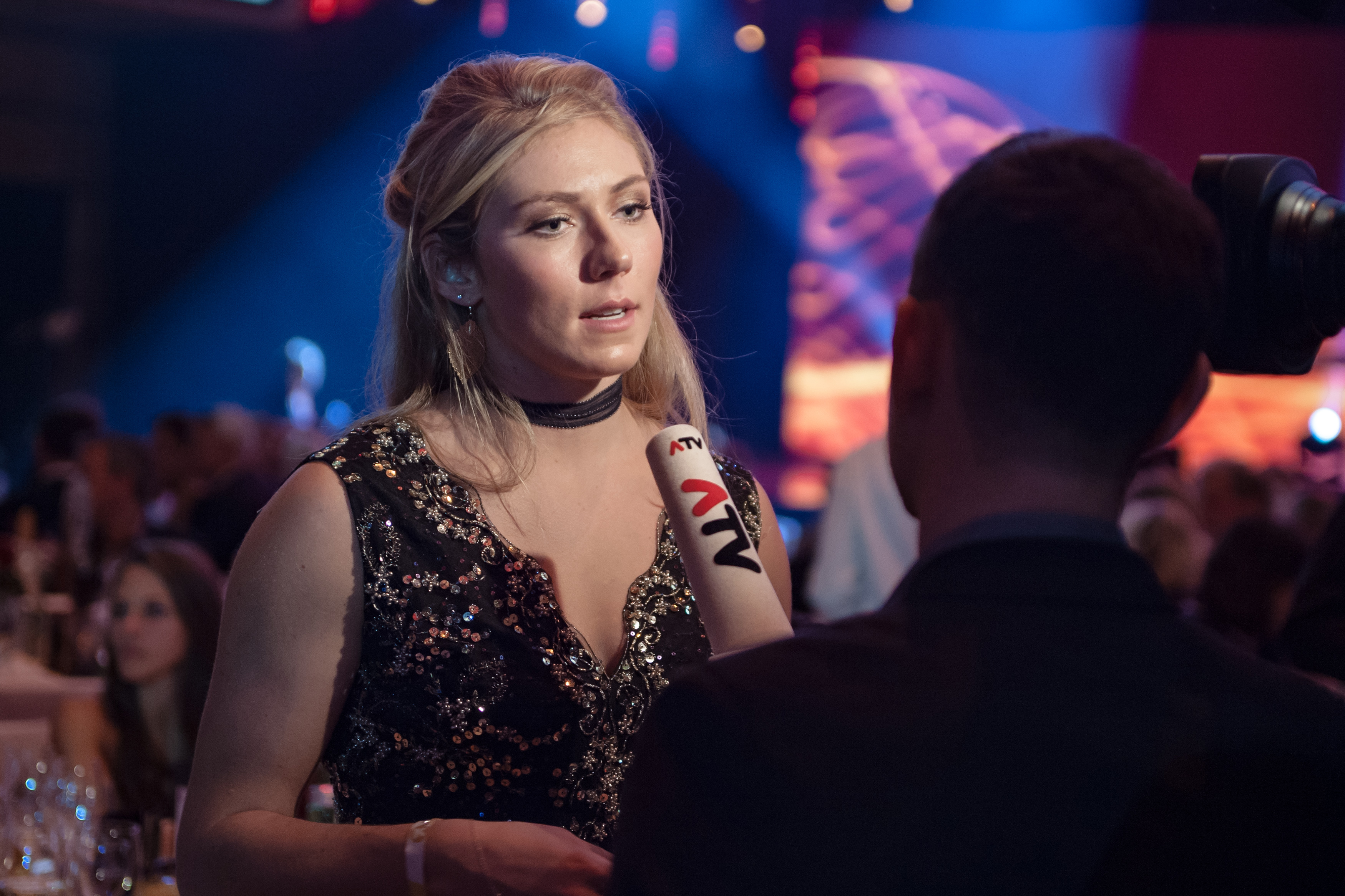 Mikaela Shiffrin, guest at the Night of Sports 2016, the annual award show for the Austrian Sportspersonalities of the Year (Austria Center Vienna, Vienna, Austria).